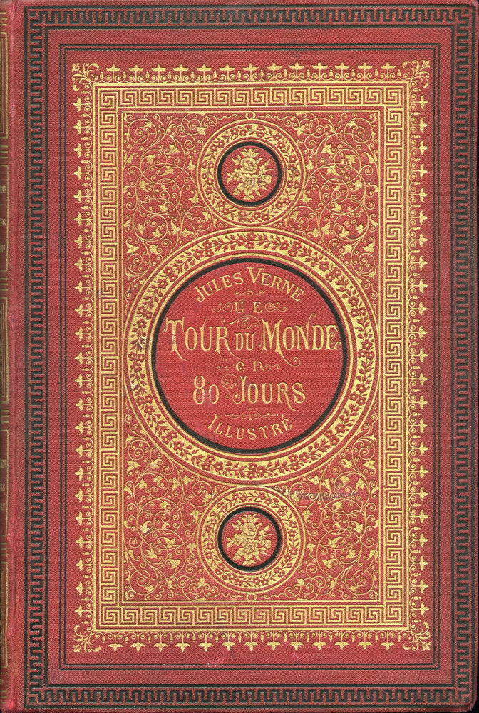 Cover of the French first edition of Jules Verne's Around the World in Eighty Days. Published on January 30, 1873,[1] printed by Gauthier-Villars, published by Pierre-Jules Hetzel & Cie, Paris. 217 pages, illustrated with B/W engravings by De Neuville and Benett. (publisher's binding)